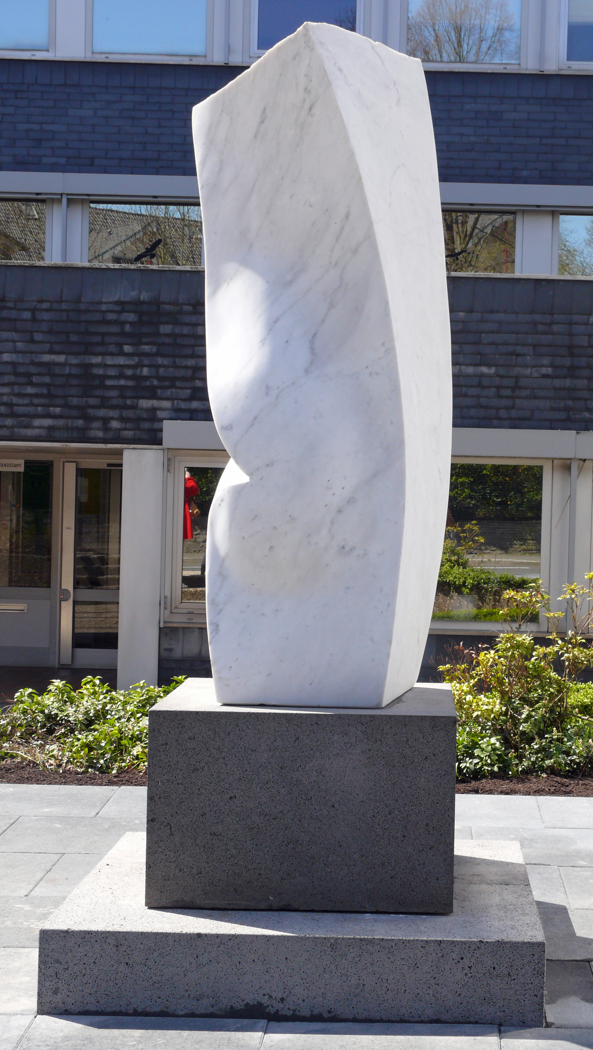 Sculpture - Kraft II sculptor Peter Rübsam in front of the townhall in Nuembrecht. - Skulptur - Kraft II - Bildhauer Peter Rübsam vor dem Rathaus in Nümbrecht. Author mrfinch Time of creation 20 April. 2008 Licence GNU FDL and CC-by-SA Camera Panasonic FZ50